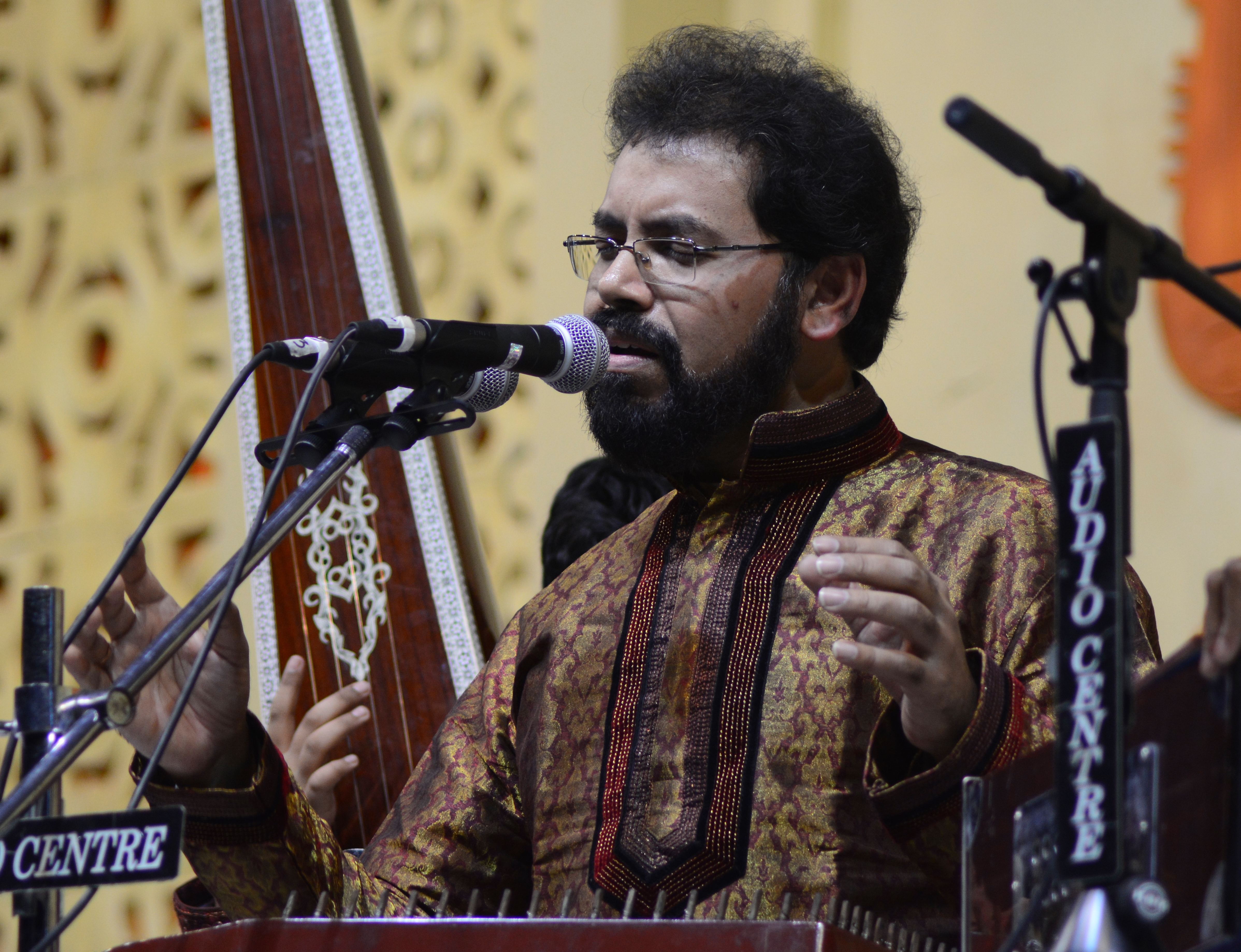 Doverlane Music Conference 2014 Vocal- Koushik Bhattacharjee Tabla- Pt. Samar Saha Harmonium- Pradip Palit Tanpura- Jaeger Smith Koulik Bhattacharjee